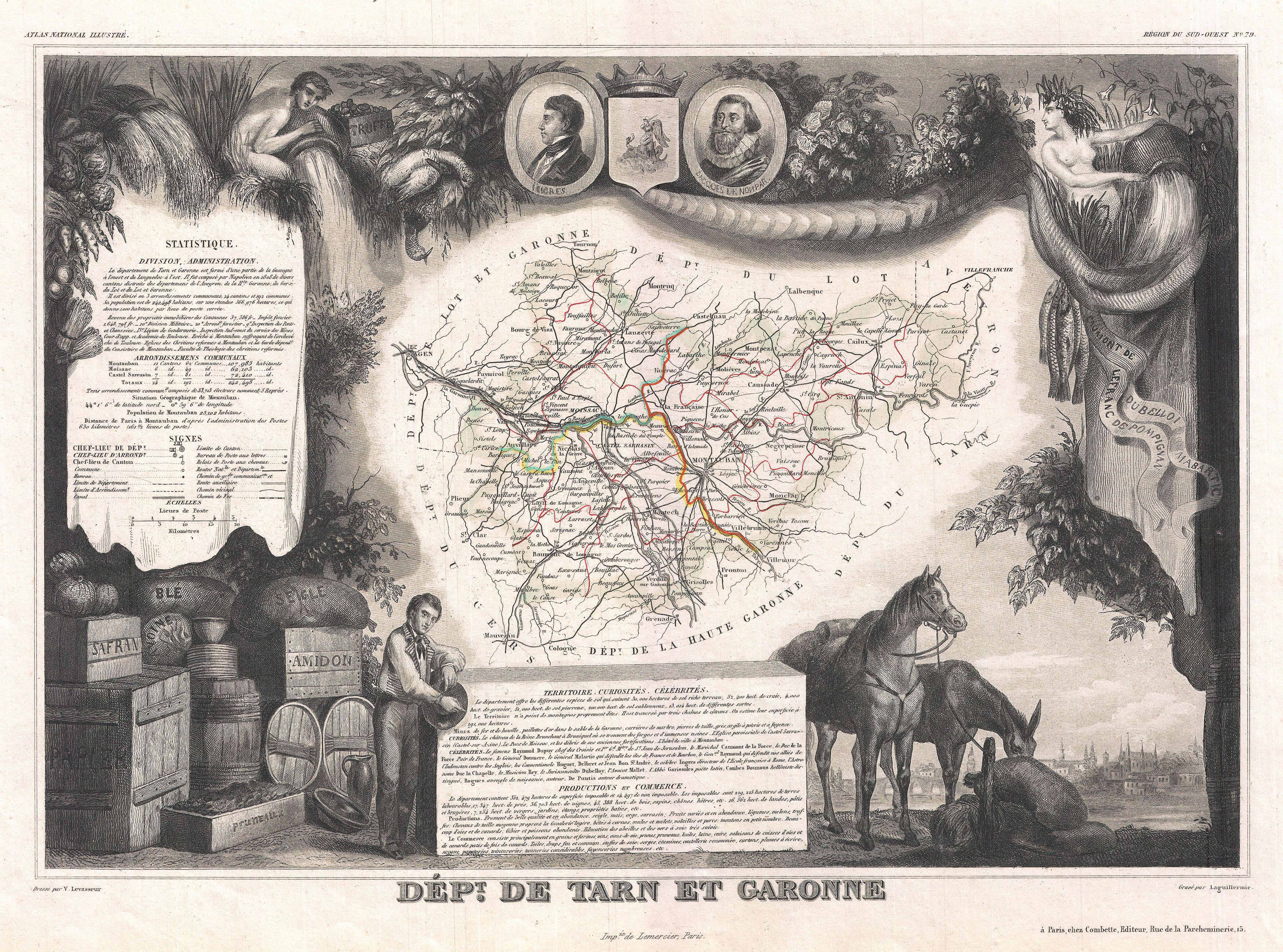 This is a fascinating 1852 map of the French department of Tarn et Garonne, France. This map is centered around the city of Moissac, which is known for its fine desert grapes. This area produces a number of quality wines, such as AOC Fronton, Cotes de Brulhois, and the Vins de Pays des Côteaux et Terrasses de Montauban. Tarn et Garonne is also home to the area of Côteaux du Quercy, which has a reputation for producing supple and full-bodied wines. This region is also a historic stopping point on the Pilgrimage to Santiago de Compostella. The map proper is surrounded by elaborate decorative engravings designed to illustrate both the natural beauty and trade richness of the land. There is a short textual history of the regions depicted on both the left and right sides of the map. Published by V. Levasseur in the 1852 edition of his Atlas National de la France Illustree.